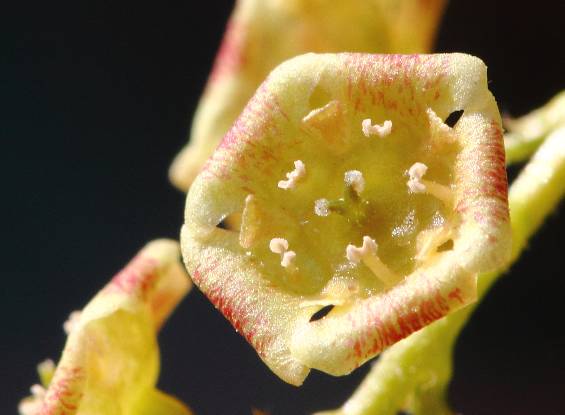 Close-up of blossom of red currant. Picture taken in private garden.